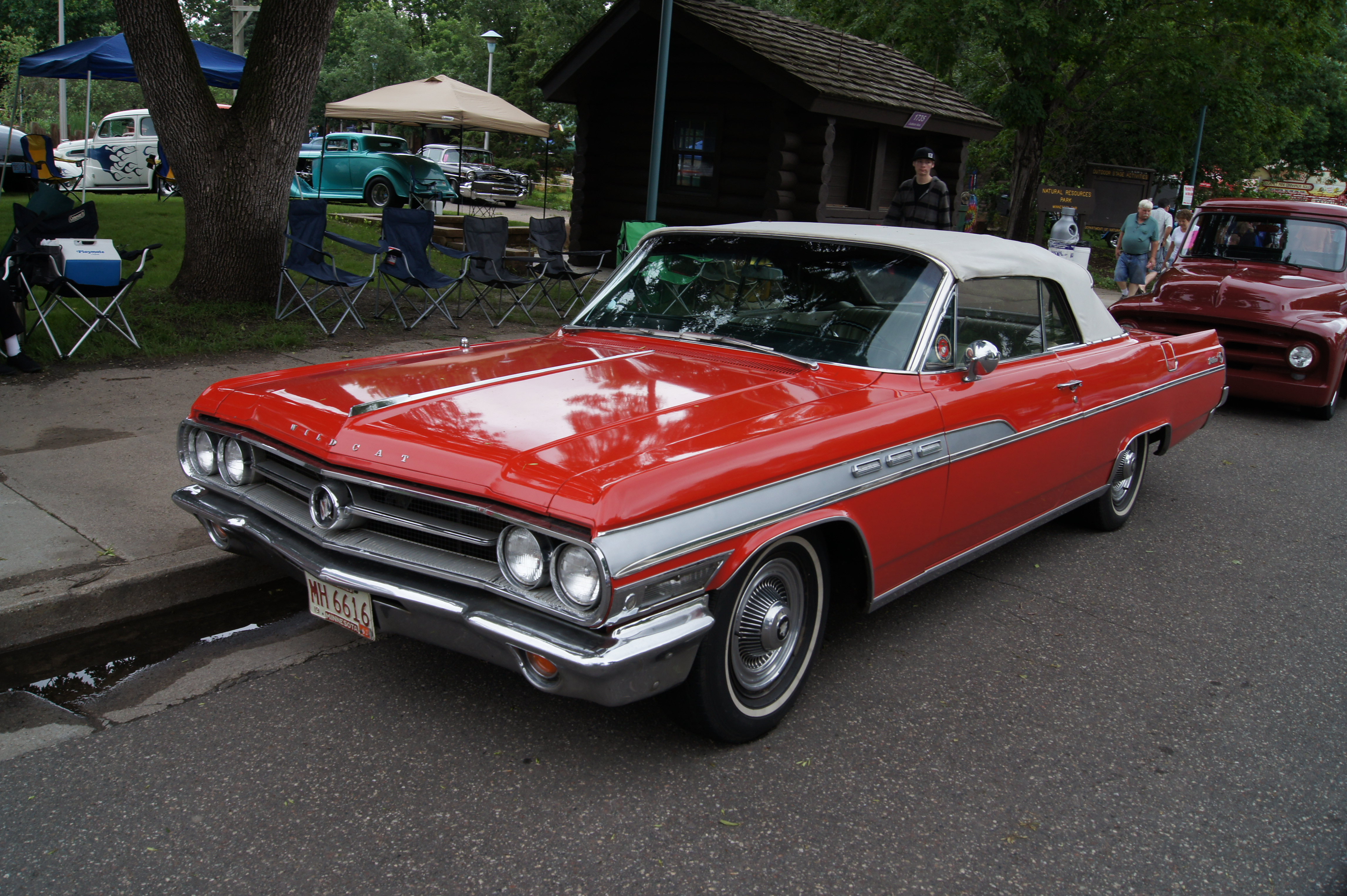 MSRA “BACK TO THE 50′s” 40th ANNIVERSARY June 21-23, 2013 State Fairgrounds St. Paul Minnesota More Car Pictures